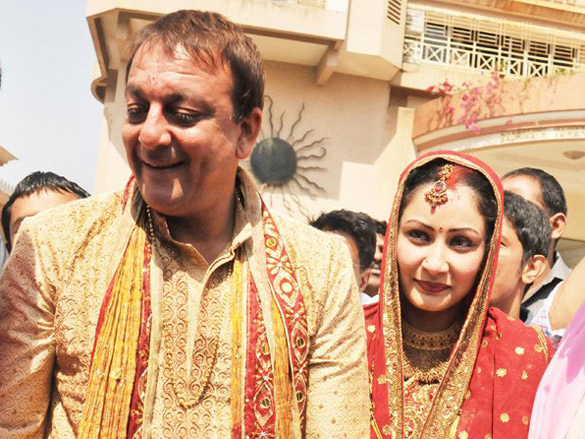 Actor Sanjay Dutt Weds actress Manyata